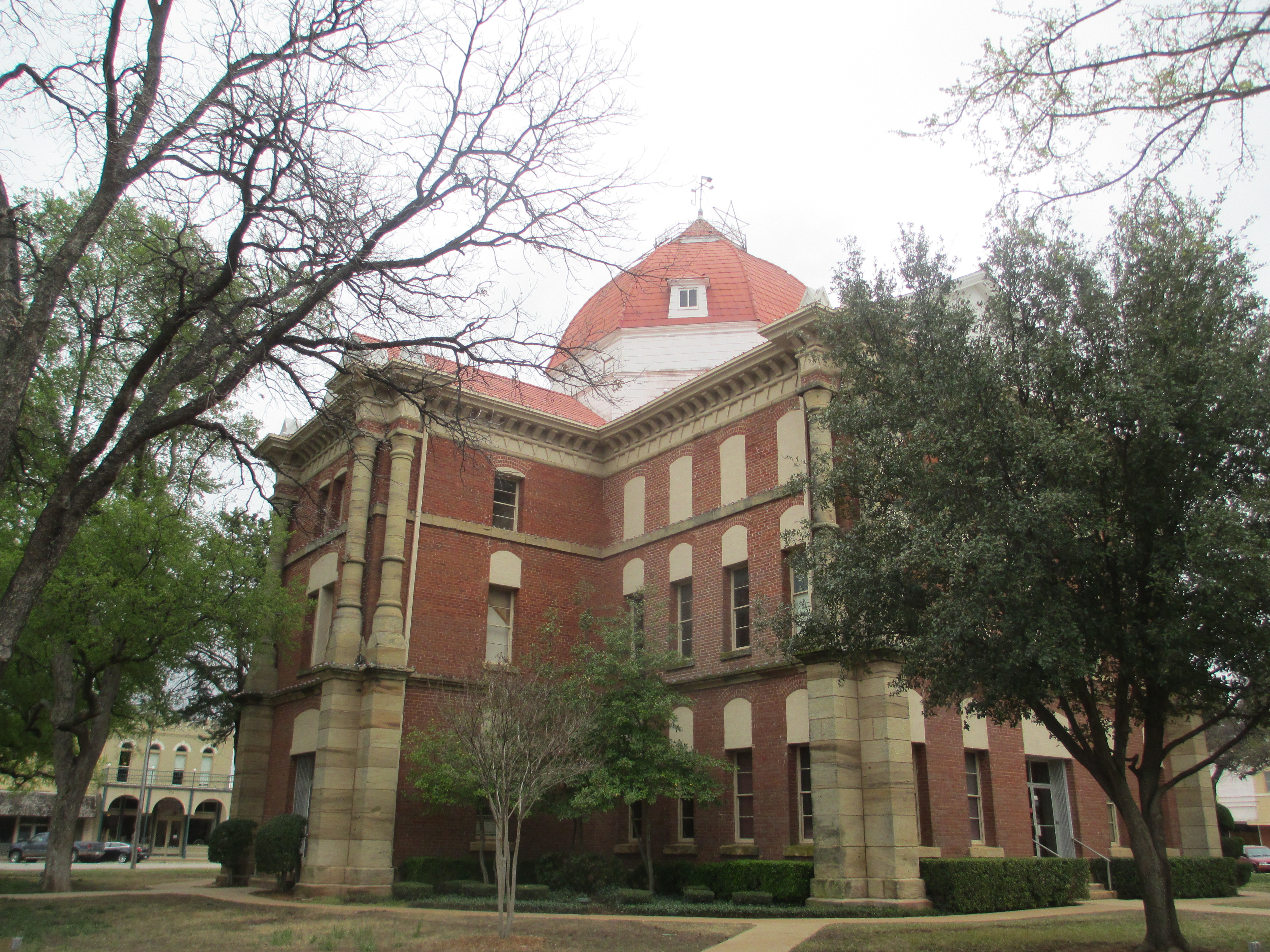 I took photo with Canon camera of Clay County Courthouse in Henrietta, TX, April 4, 2013. Billy Hathorn (talk) 21:57, 10 April 2013 (UTC)